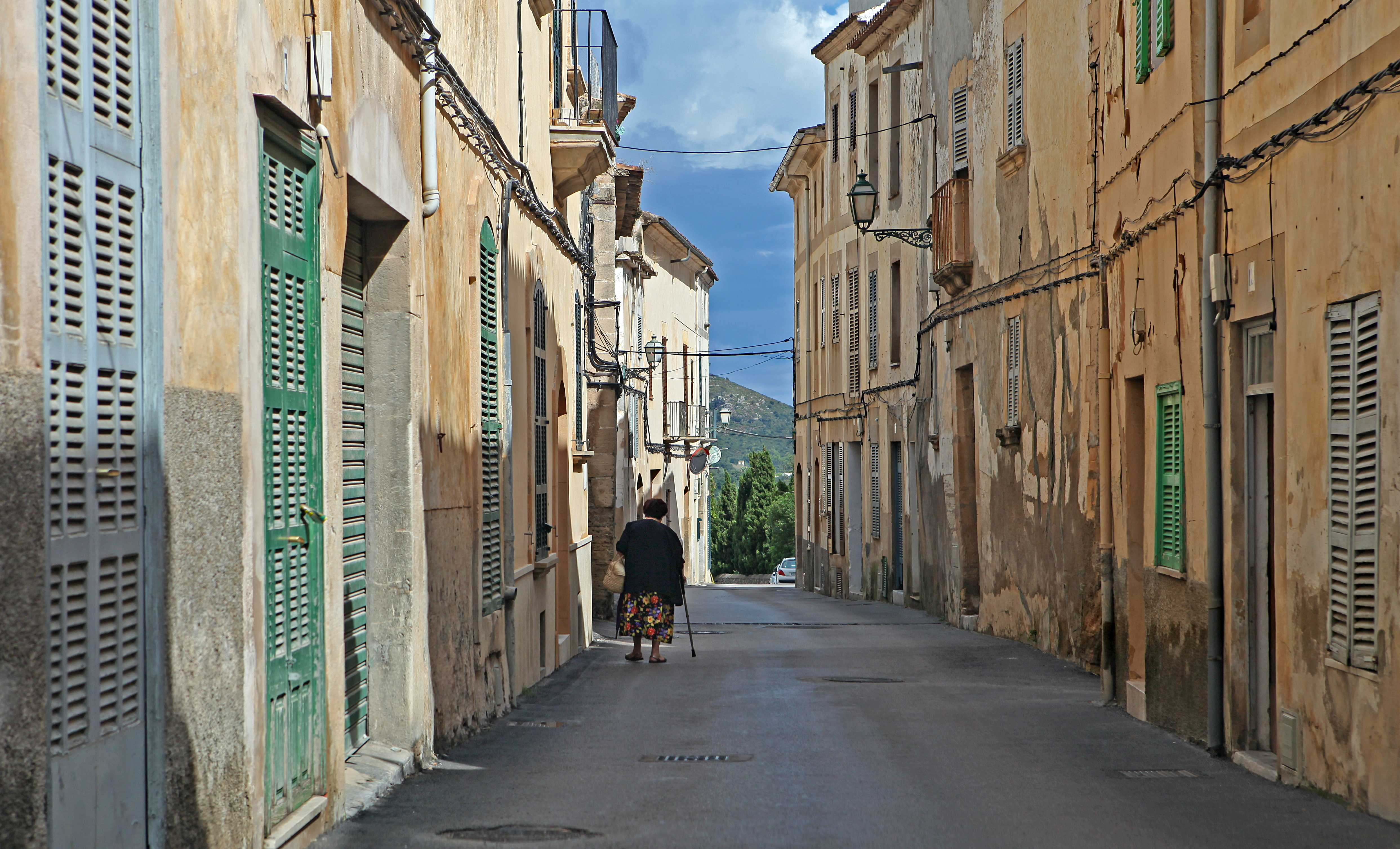 Manacor, Mallorca, Spain 2009